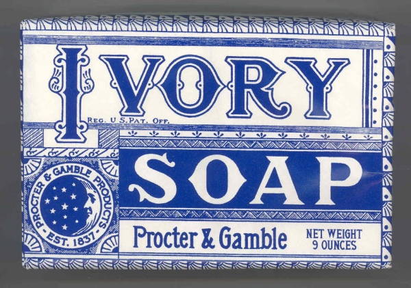 Ivory Soap circa 1800s